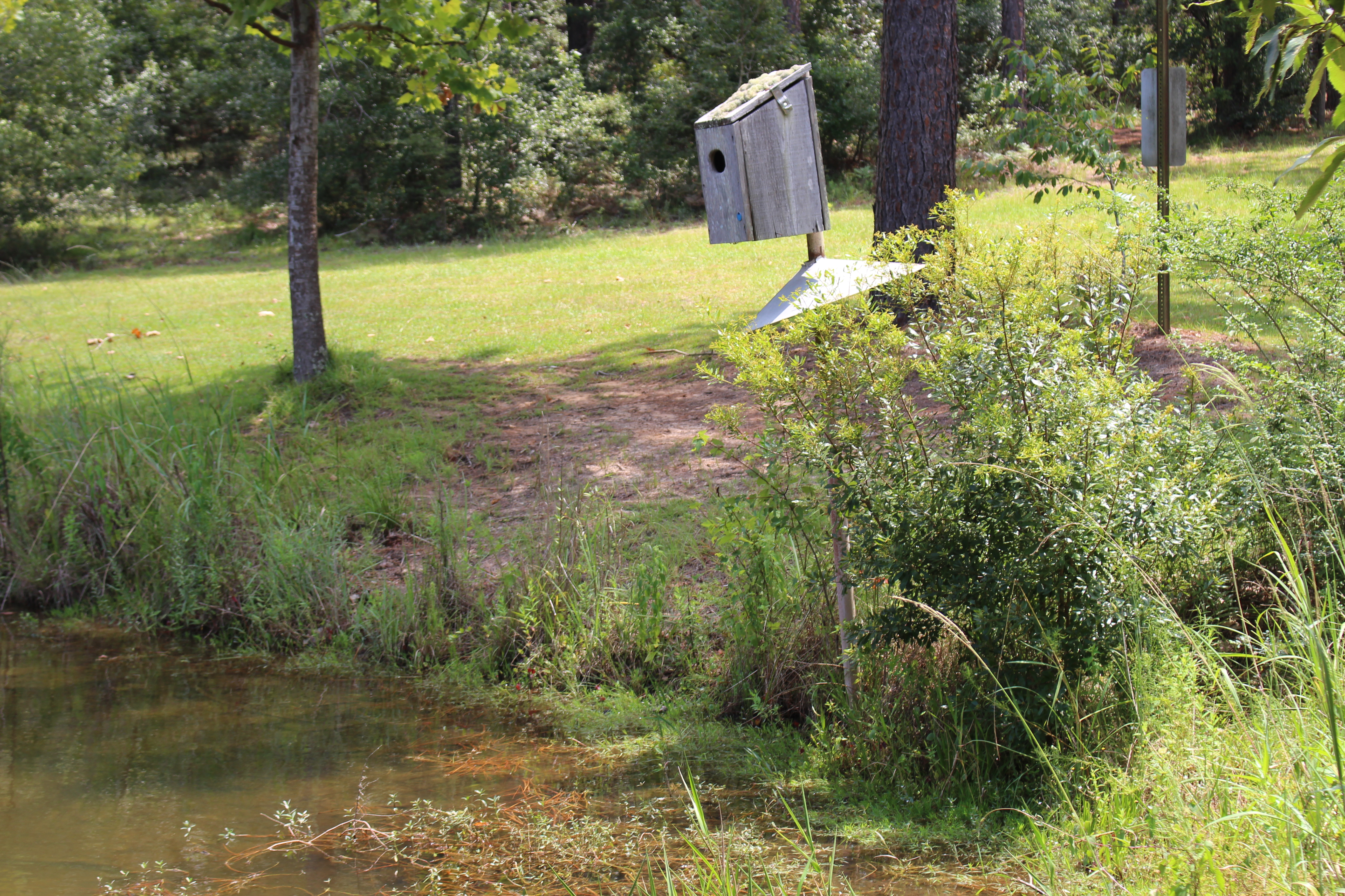 General Coffee State Park, Coffee County, Georgia